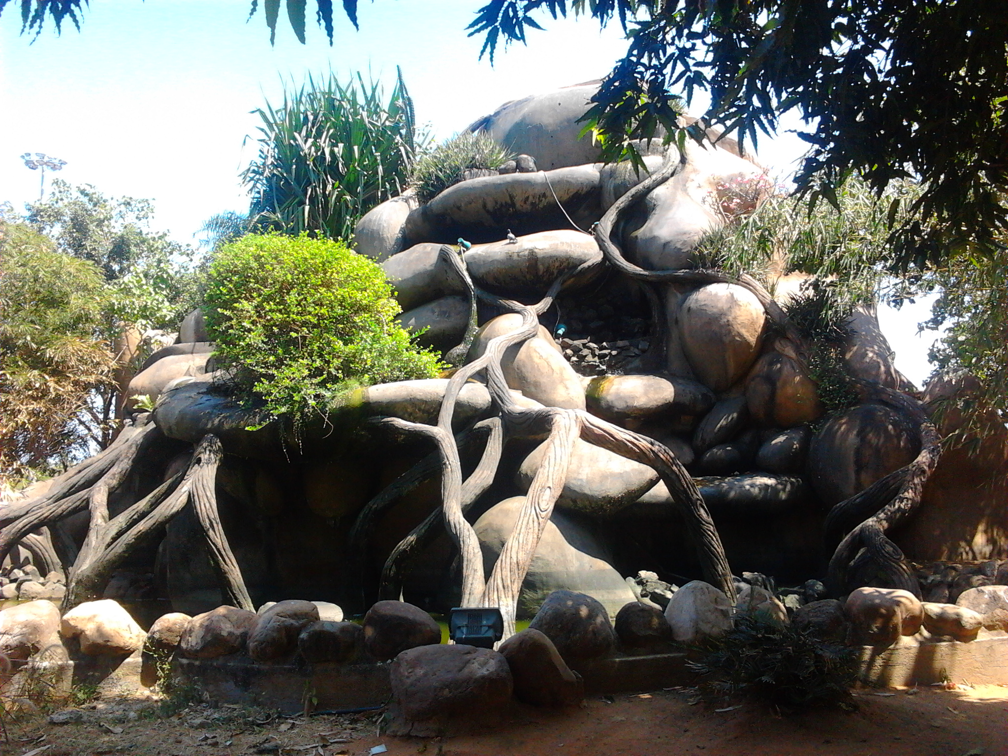 Photoed using Samsung Wave 525.